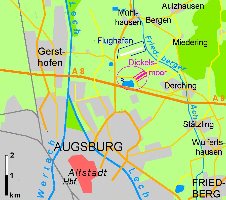 Localization of the housing and weekend area of Dickelsmoor near Augsburg